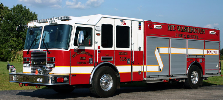 2010 KME Rescue Rig